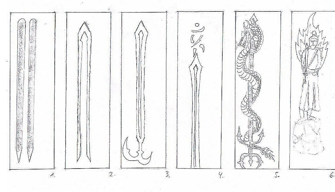 Types of the Horimono